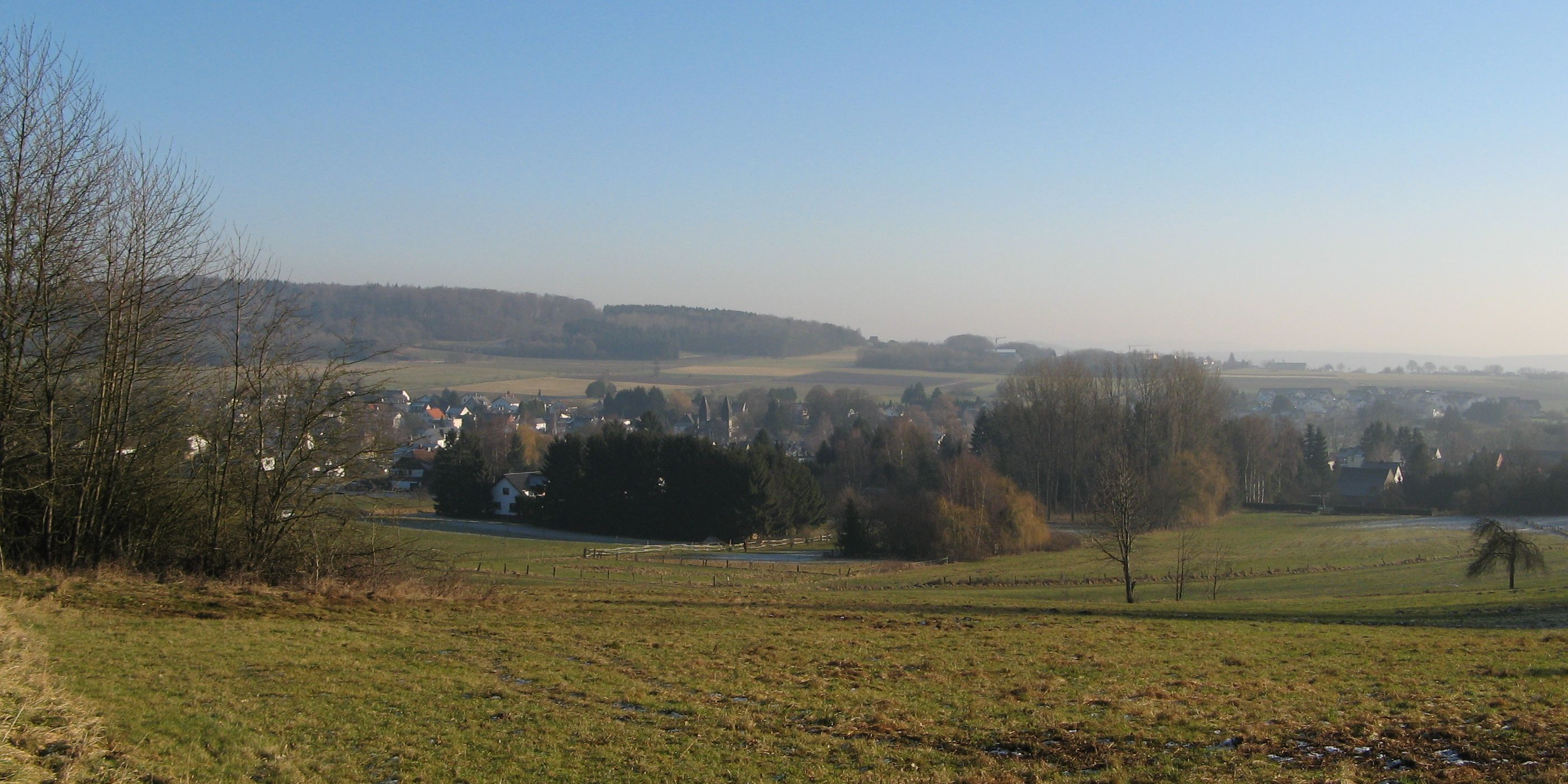 Panorama of Hausen, Westerwald, Hesse, Germany. In the background left the Heidersberg (388 m.ü.NN)